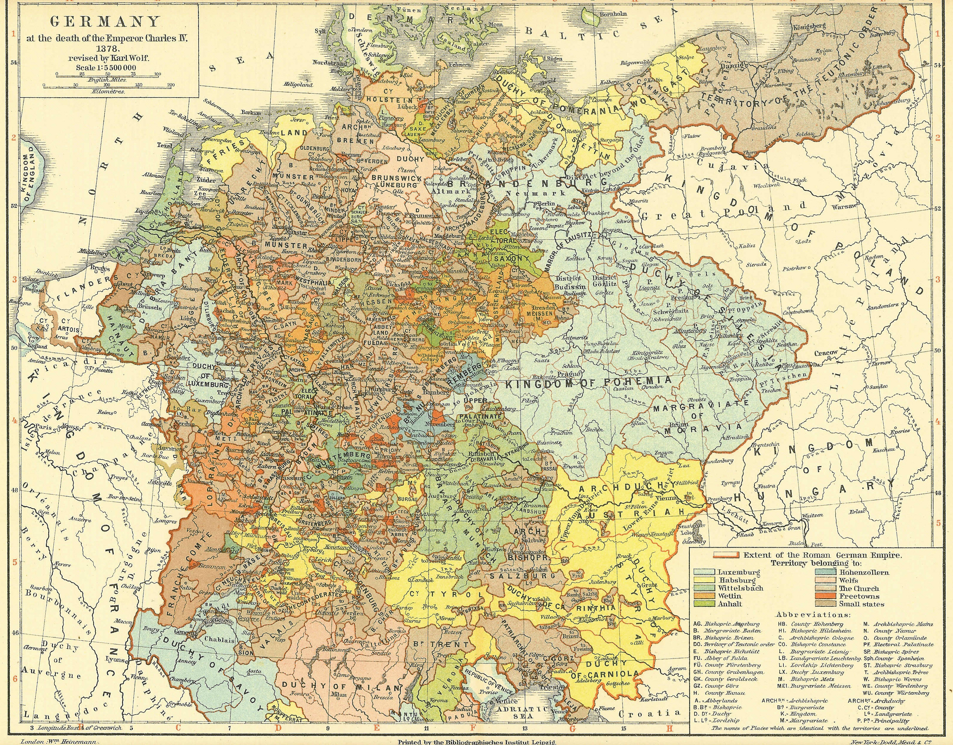 Map: Germany at the death of Emperor Charles IV, 1378